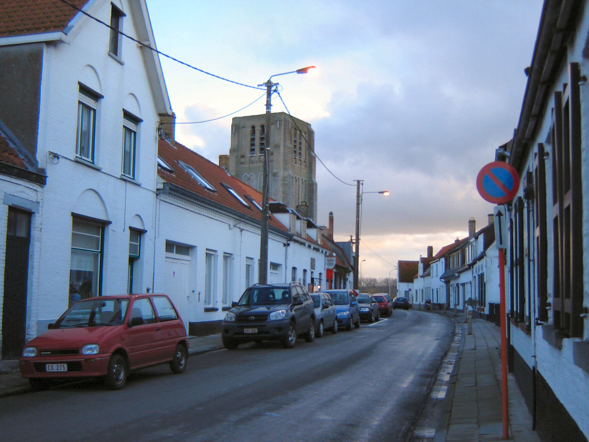 Sint-Kwintensstraat street in Oostkerke, Damme, West-Flanders, Belgium.